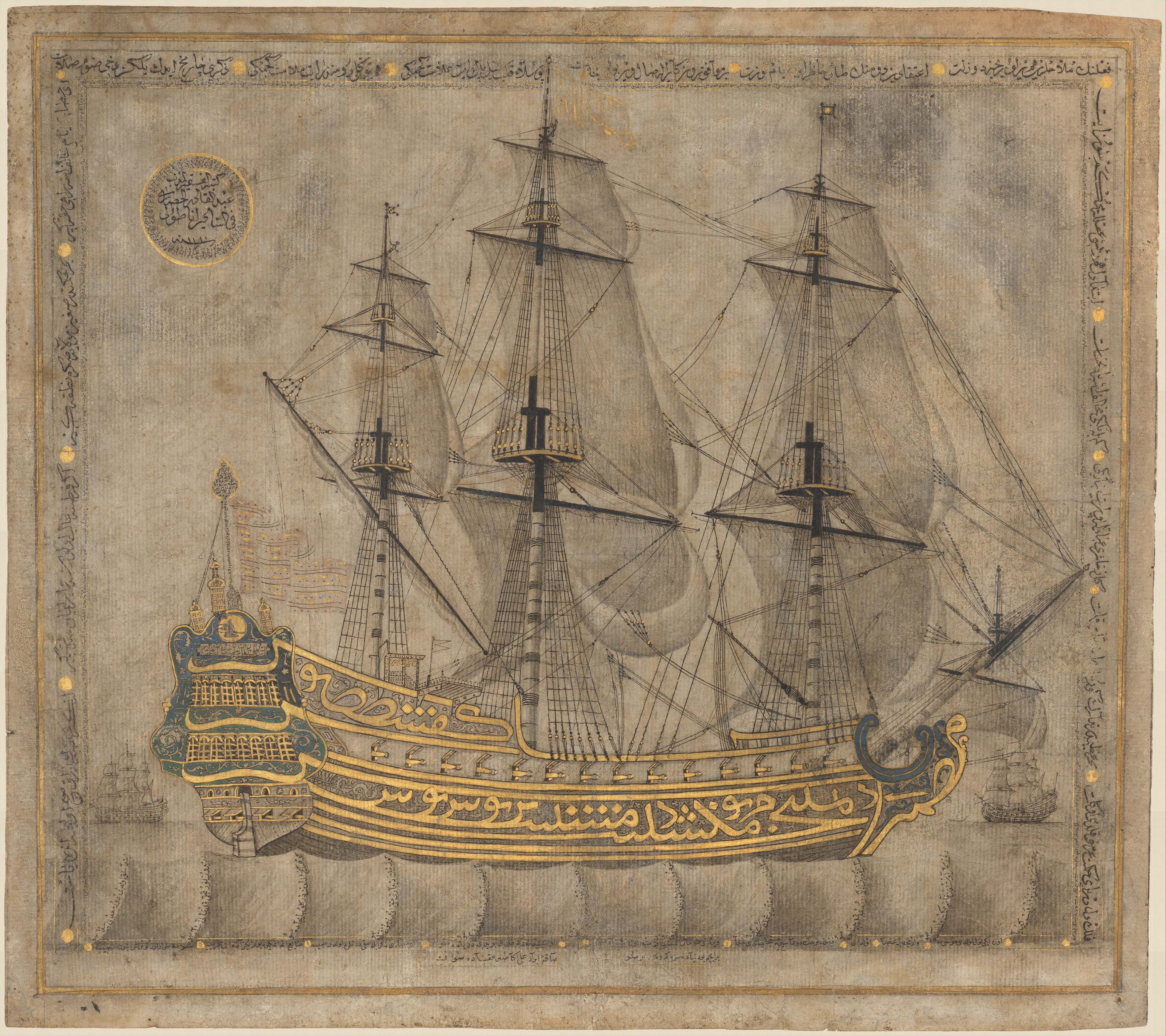 Illustrated single work; Codices